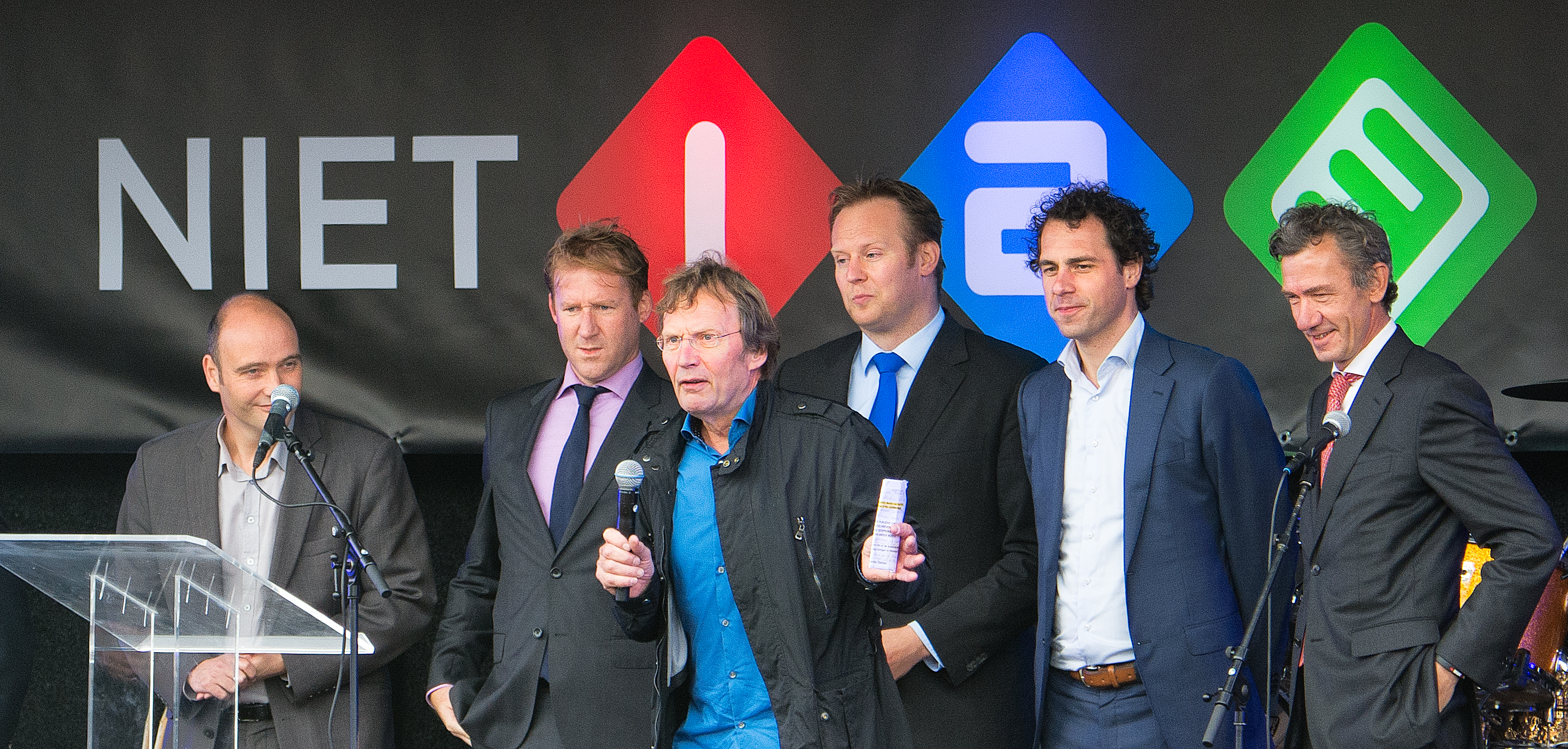 Cees van Grimbergen interviews Dutch political parties on the austerity measures with the public media, at a protest on the Malieveld, The Hague.